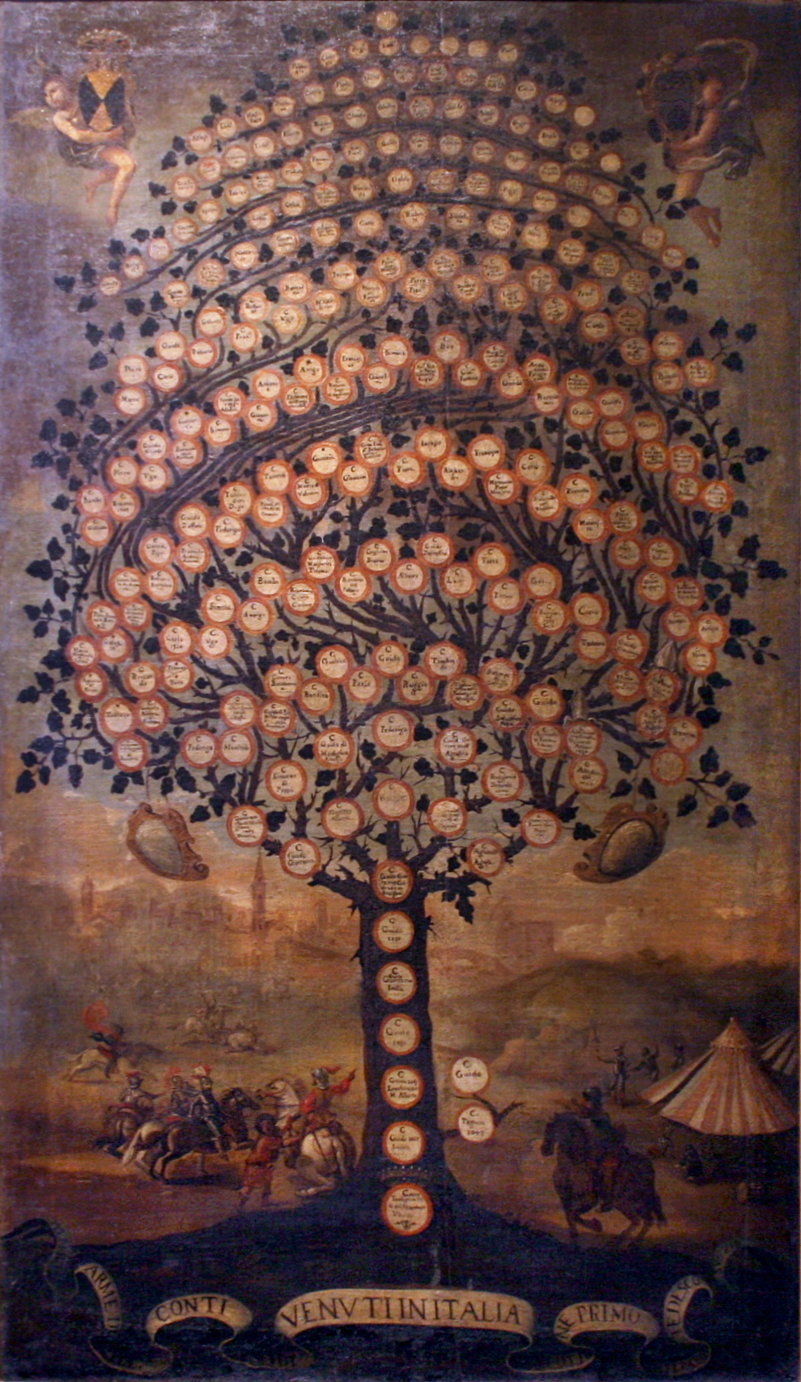 Family tree of the comital Guidi family, by Michelangelo Vestrucci (XVII century).